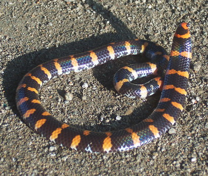 Cylindrophis ruffus from Darmaga, Bogor, Java, Indonesia